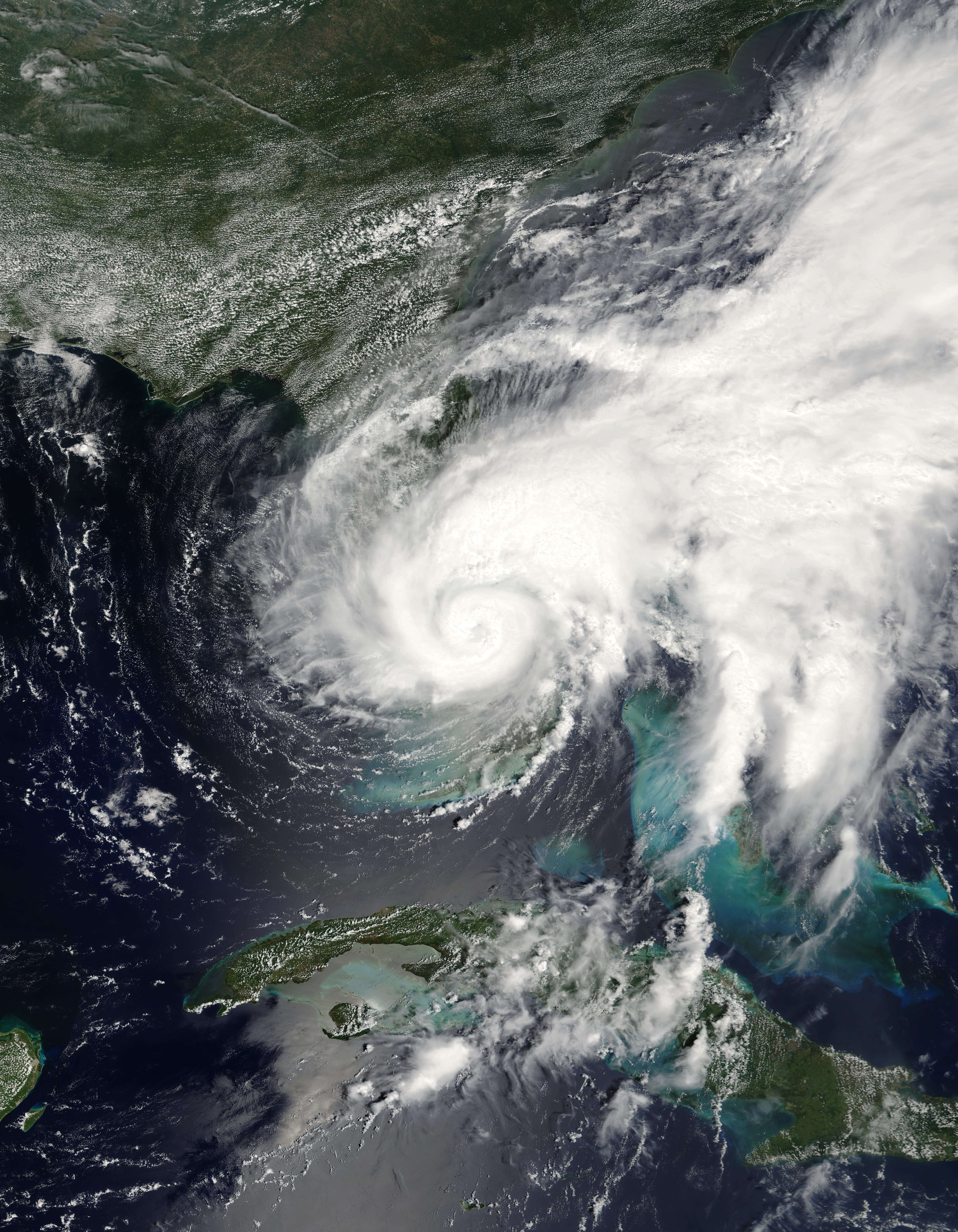 Tropical Storm Fay (2008) as seen from Terra Satellite on 2008-08-19